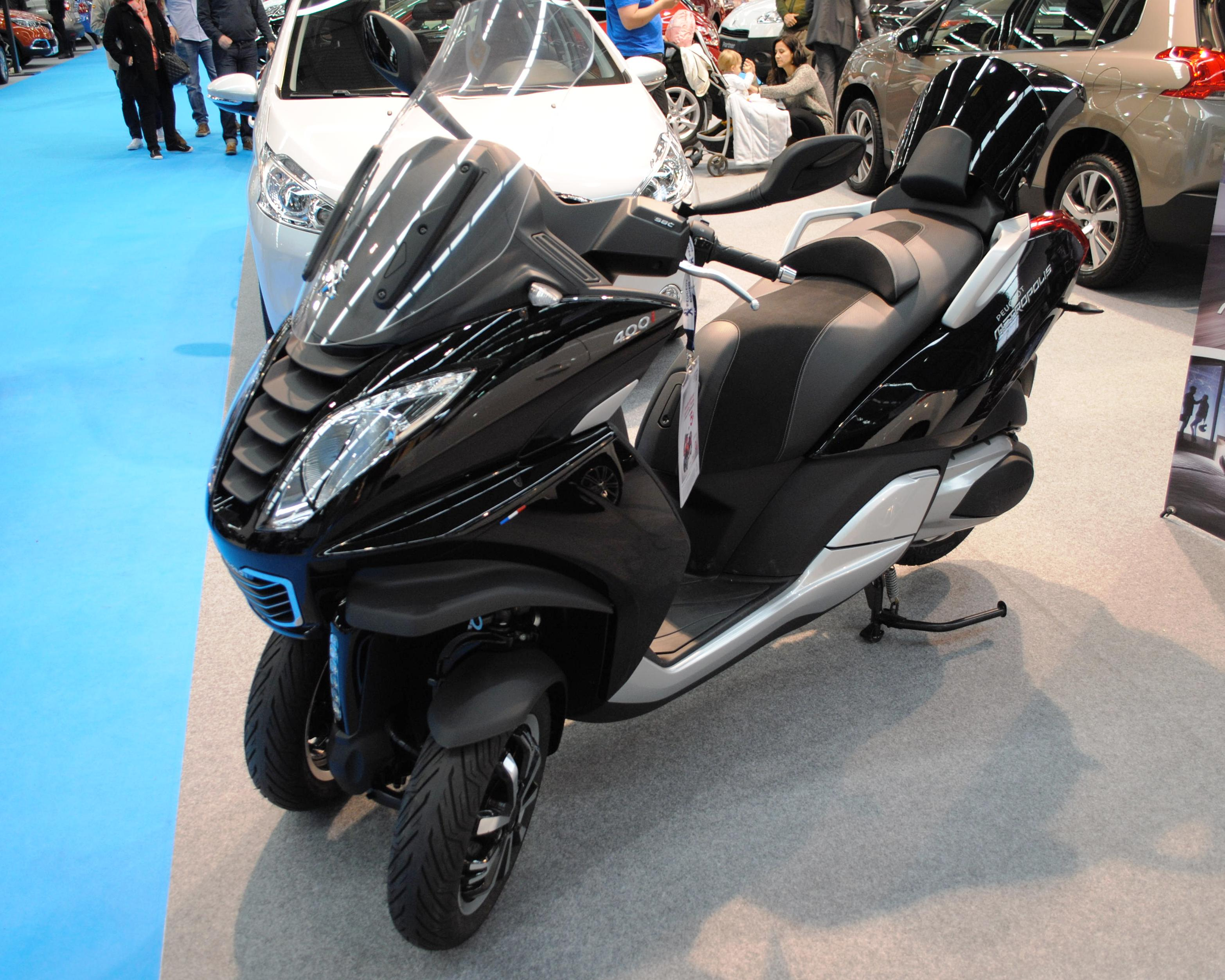 Peugeot Metropolis, IFEVI, 2014 (2).JPG